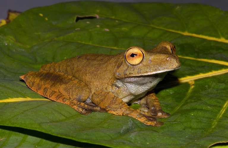 Hypsiboas boans